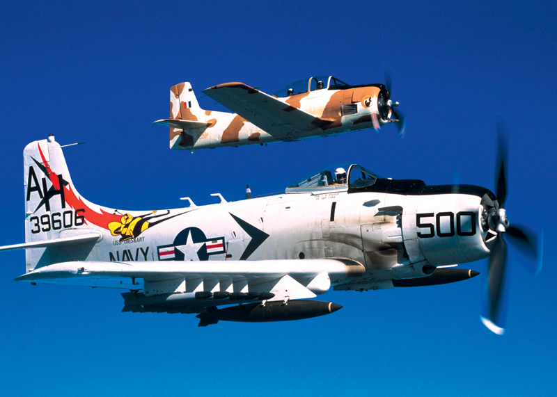 Among a few remaining flyable A-1H, BuNo 139606 is one of the four Skyraiders "rescued" from those that were flown to Thailand by VNAF pilots during the final days of South Vietnam, culminating with the fall of Saigon to the North Vietnamese on 29 April 1975. A-1H 139606 was maintained in flyable condition by the Museum of Flying, Santa Monica (California, USA). It is painted in the colours of attack squadron VA-165 Boomers, which was assigend to Attack Carrier Air Wing Sixteen (CVW-16) aboard the aircraft carrier USS Oriskany (CVA-34) between 1962 and 1964. However, the stinging hornet was painted on VA-176 Skyraiders, not on VA-165's. Flying with the A-1H is a North American T-28 Trojan.